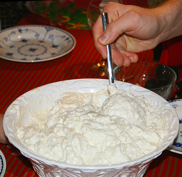 Risalamande, the dessert after a traditional Danish Christmas dinner.